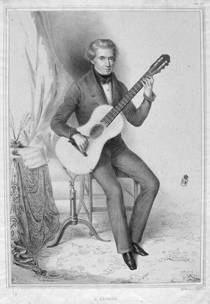 Clssical guitarist Dionysio Aguado ( 1784-1849).